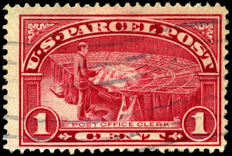 United States 1c parcel post stamp of 1913